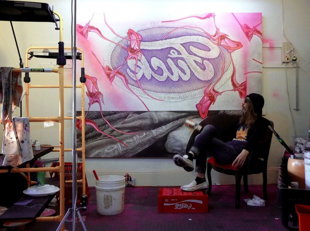 photo of Ted Vasin in his studio